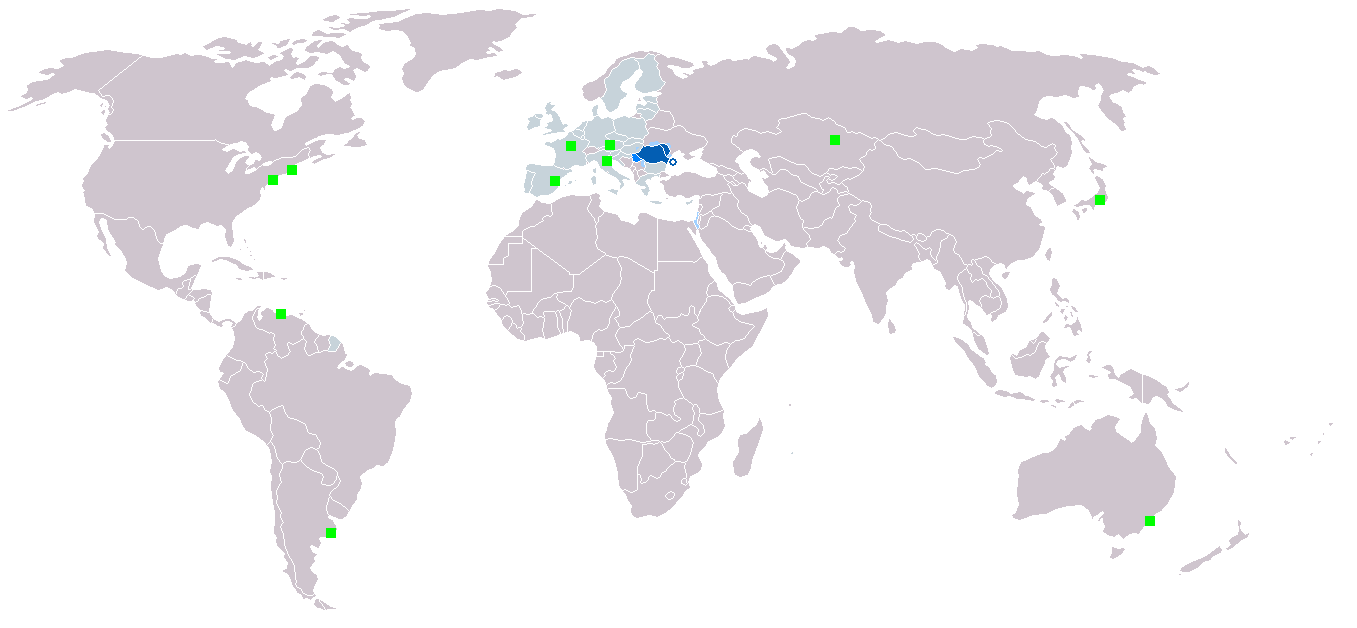 Map of the Roumanophone World (Romanian is an official and working language of the EU). Legend: Dark blue: National and official language Blue: Official language Lightblue: National minority language Green square: Minority